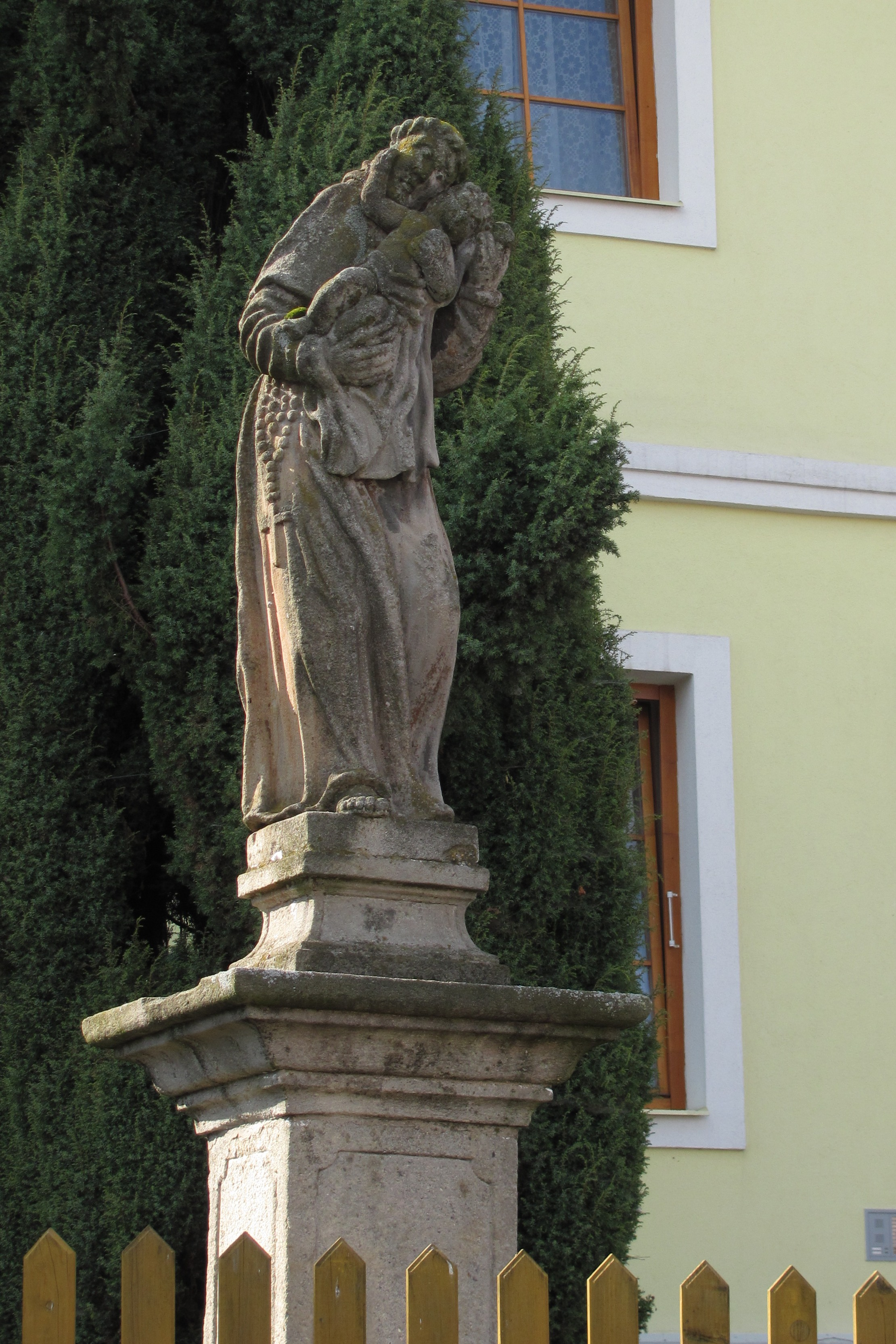 Saint Anthony of Padua (Statue in Lestkov, Tachov District)